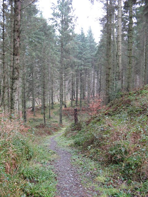 Woodland and River Esk Woodland running down to the River Esk, just downstream from Langholm.